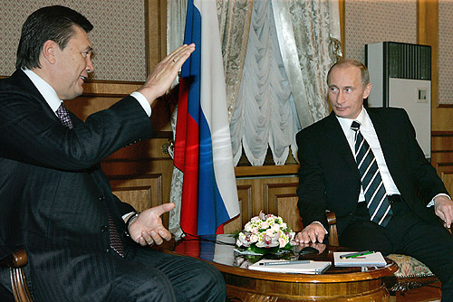 President Putin visits Ukraine and Prime Minister of Ukraine Viktor Yanukovych.